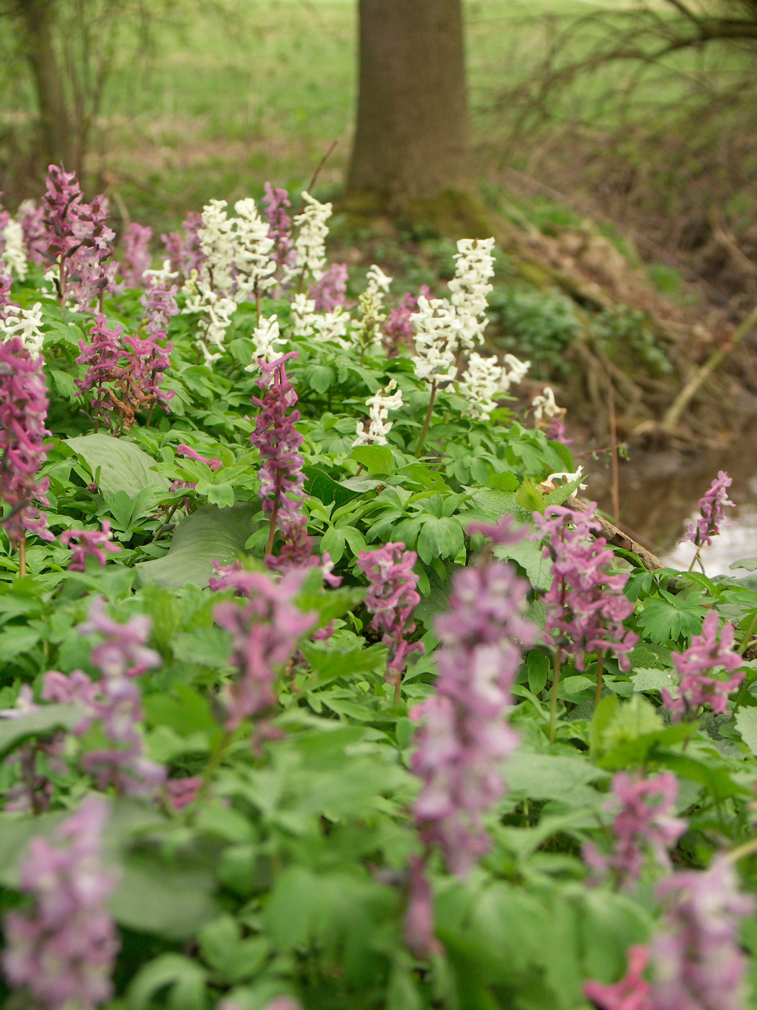 Corydalis plant species